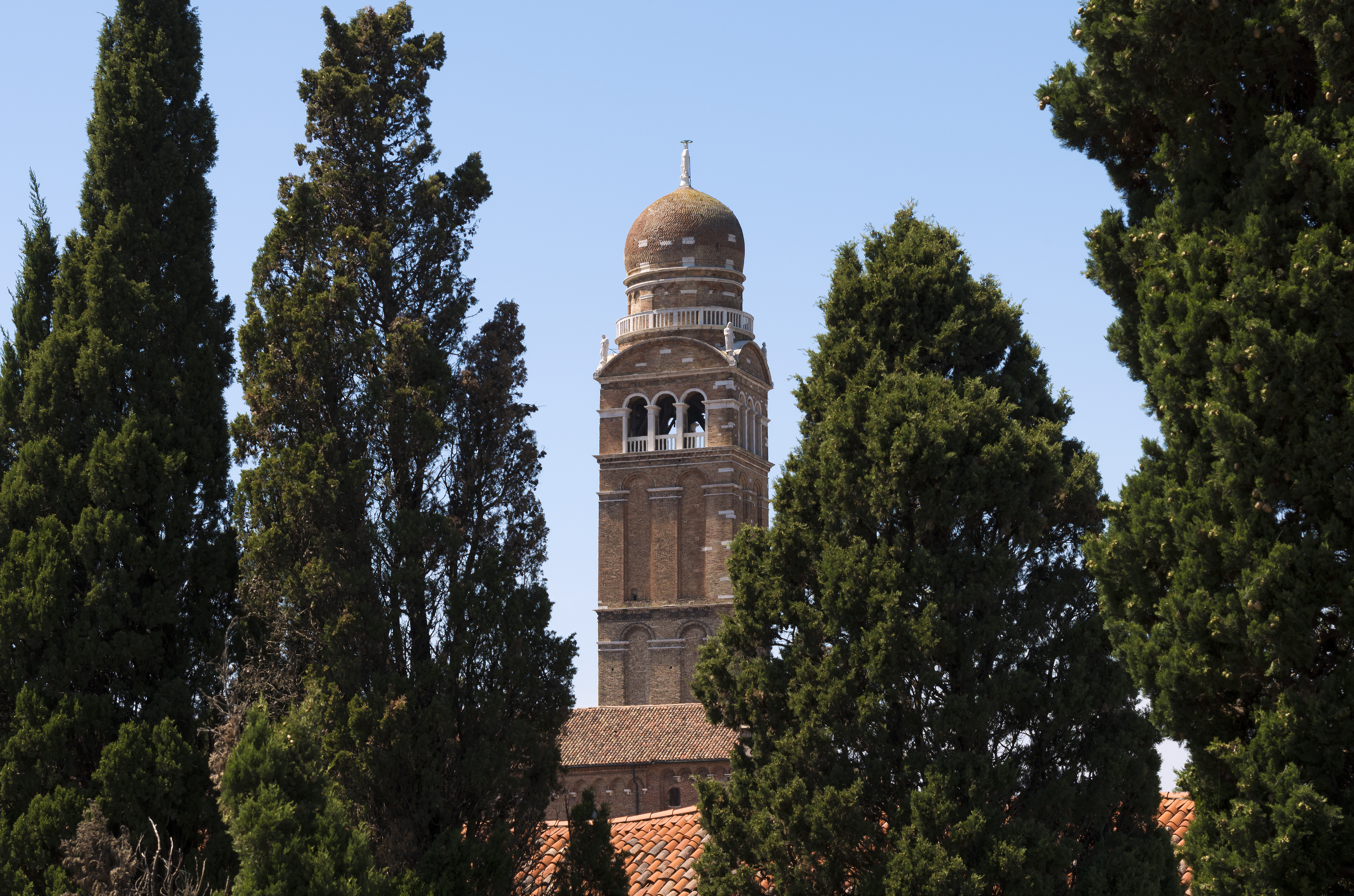 Madonna dell'Orto, Venice, bell tower